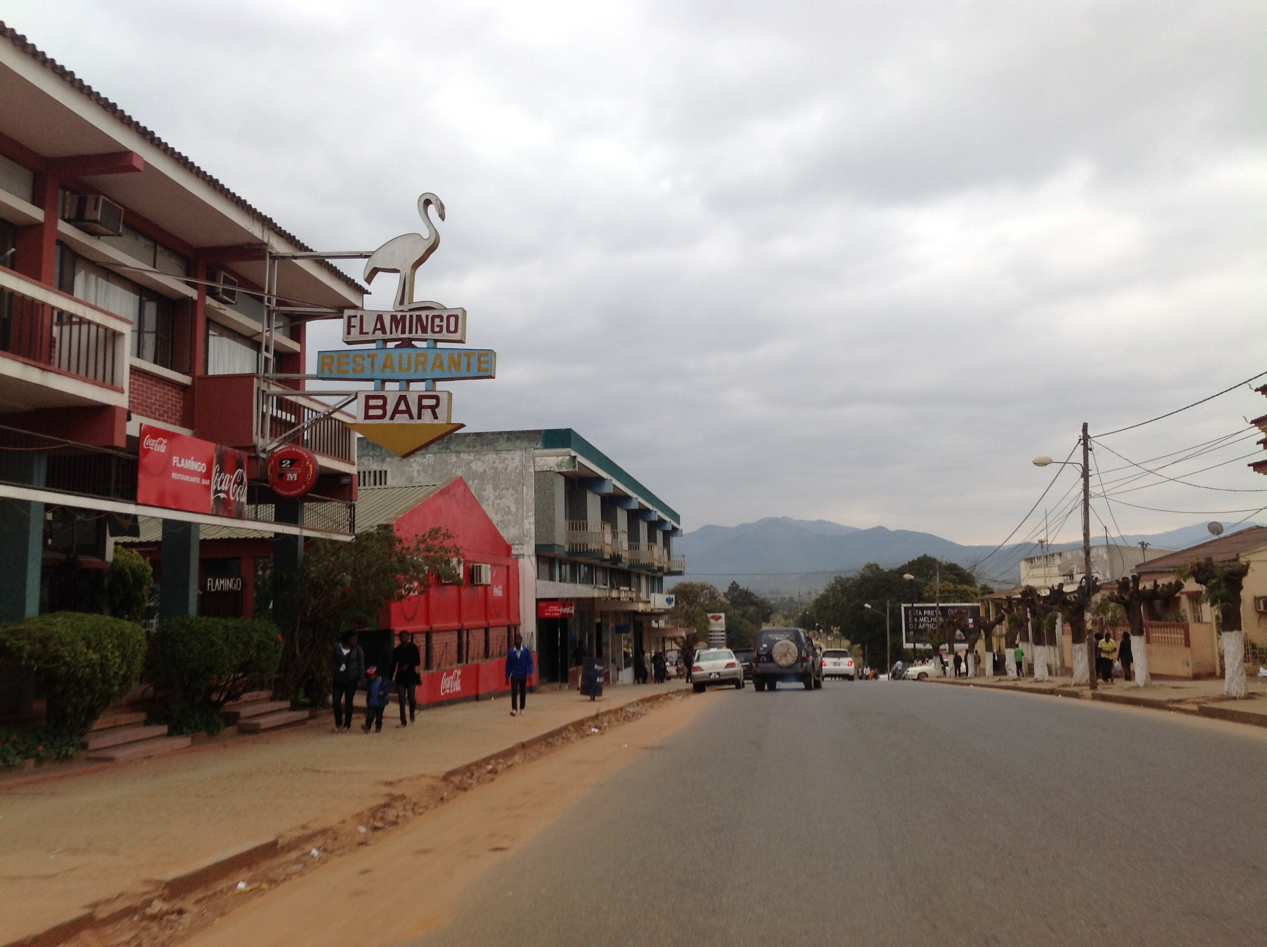 Main road in Manica, Manica, Mozambique